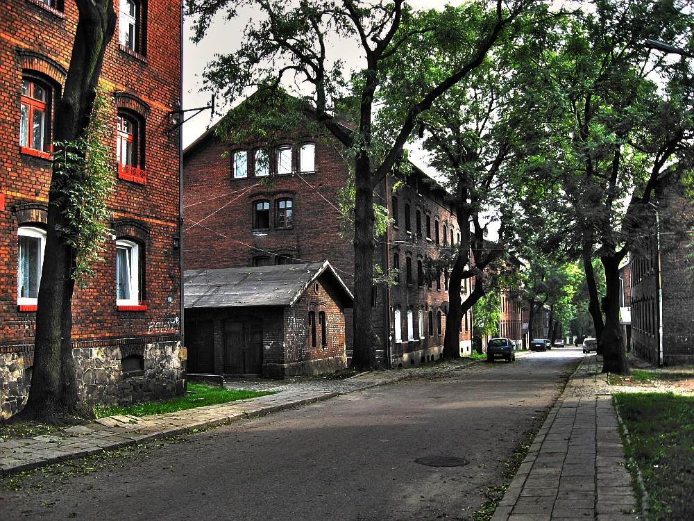 Głowackiego st. at Borgis district in Zabrze